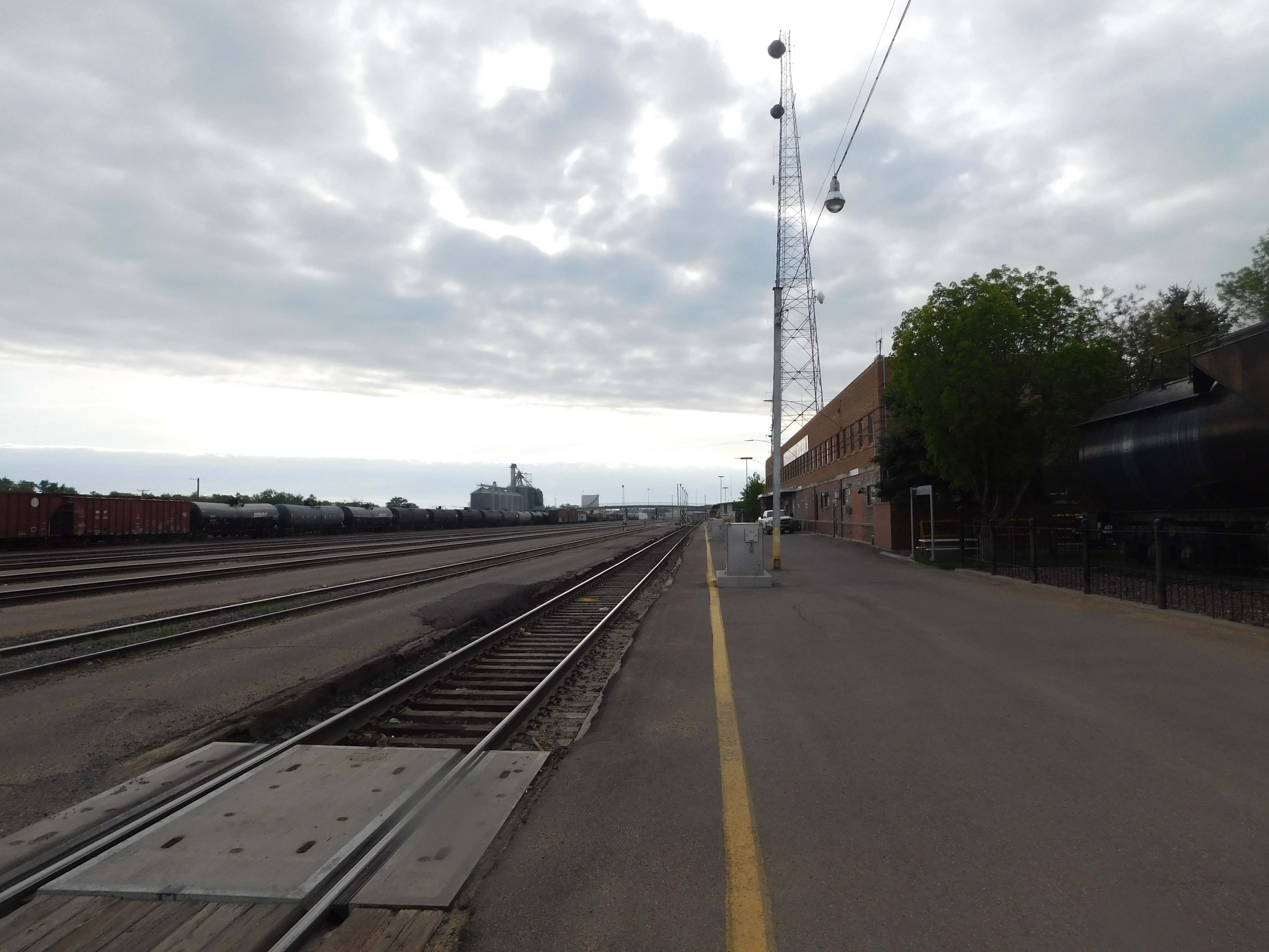 The Havre station for Amtrak's Empire Builder in May 2017.